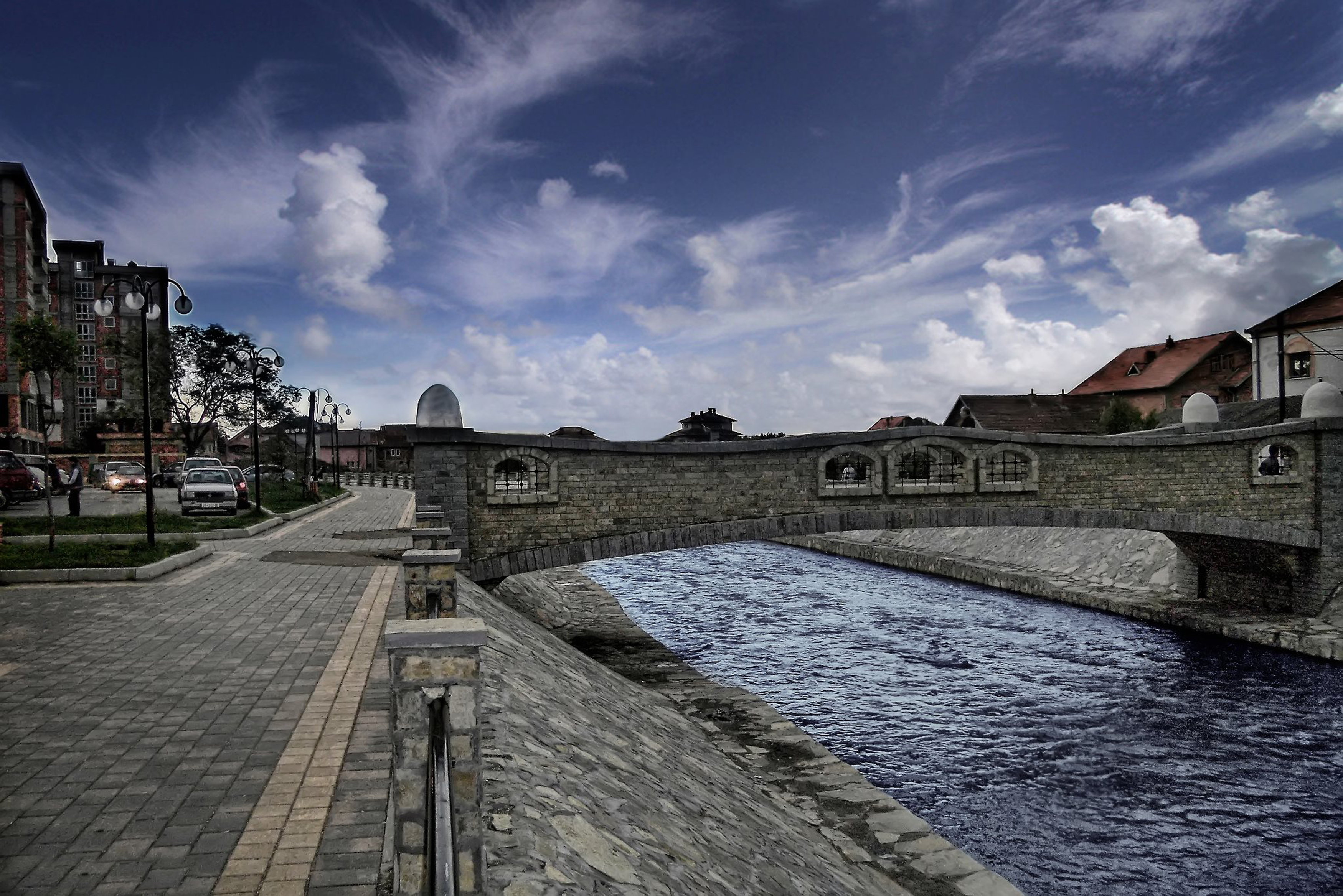 Ura e Lumit Llap ne Podujeve